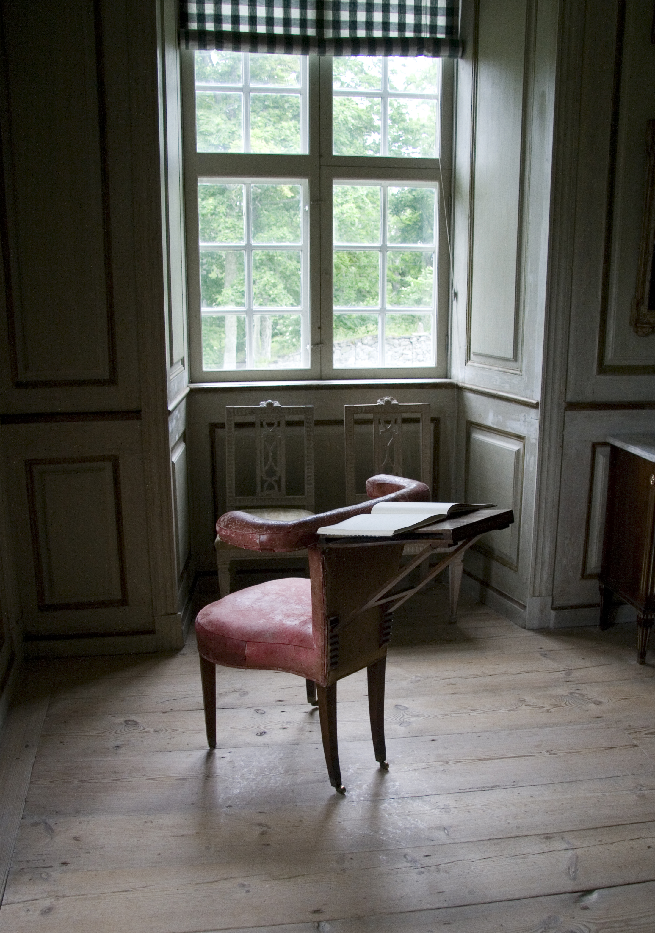 ”Cram horse” (swedish: plugghäst), a chair with an integrated bookrest. The reader sits ”back to front”, astride like a saddle, leaning the arms aginst the rest. 18th century, Stola Manor, Västergötland, Sweden.